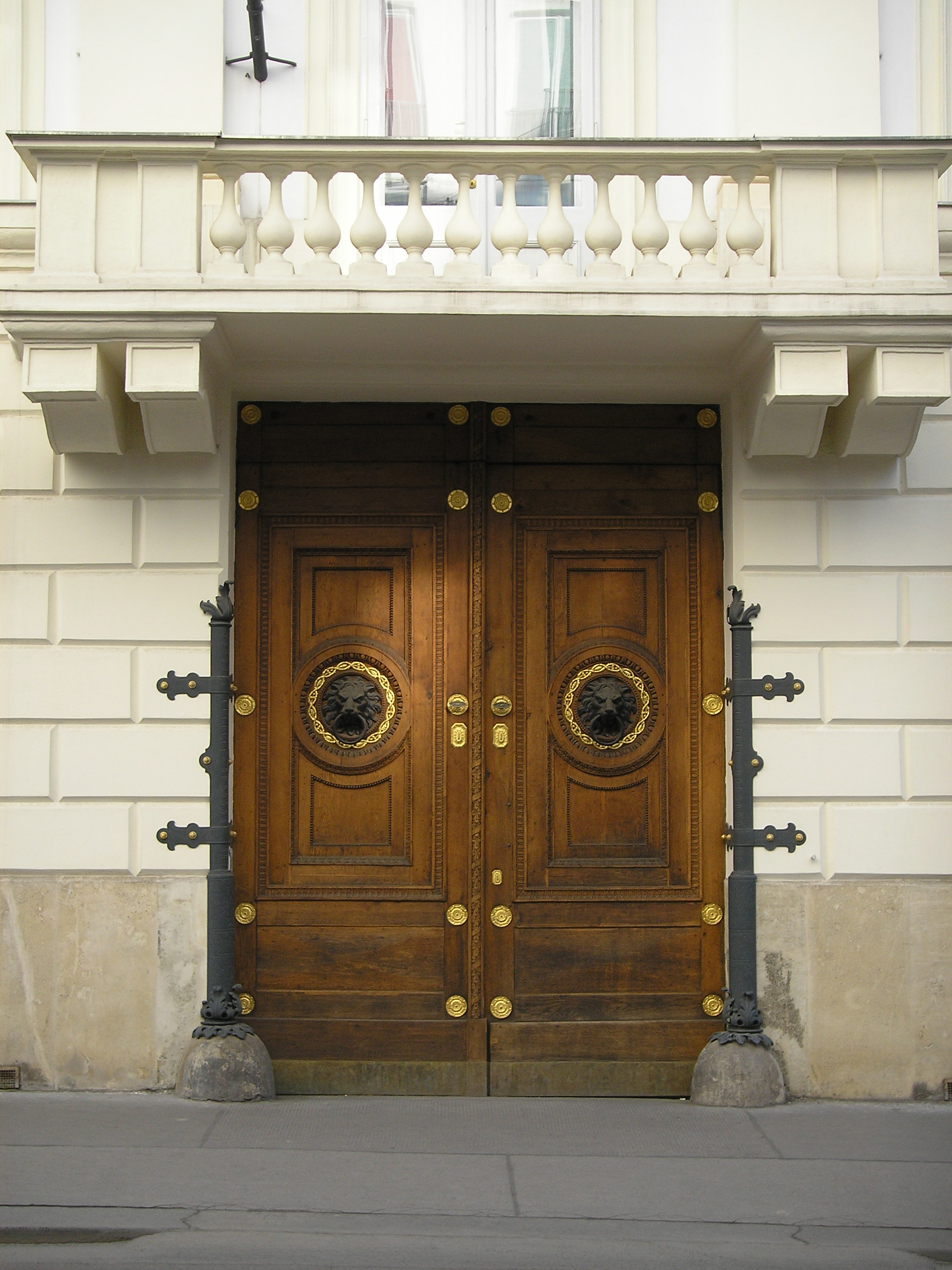 Portal of Palais Modena in Vienna, at Herrengasse